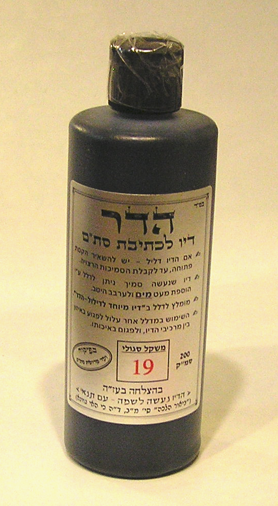 Ink used by soferim/sofrim/Torah scribes to write Torah scrolls (sifrei Torah), tefillin, mezuzot, and other sacred scrolls. A type of iron gall ink. דיו - "dyo" in Hebrew.